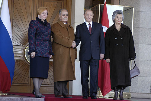 Russian President Vladimir Putin and Lyudmila Putina with Turkish President Ahmet Necdet Sezer and Semra Sezer during the welcoming ceromony at Çankaya Presidential Palace, Ankara, Turkey.